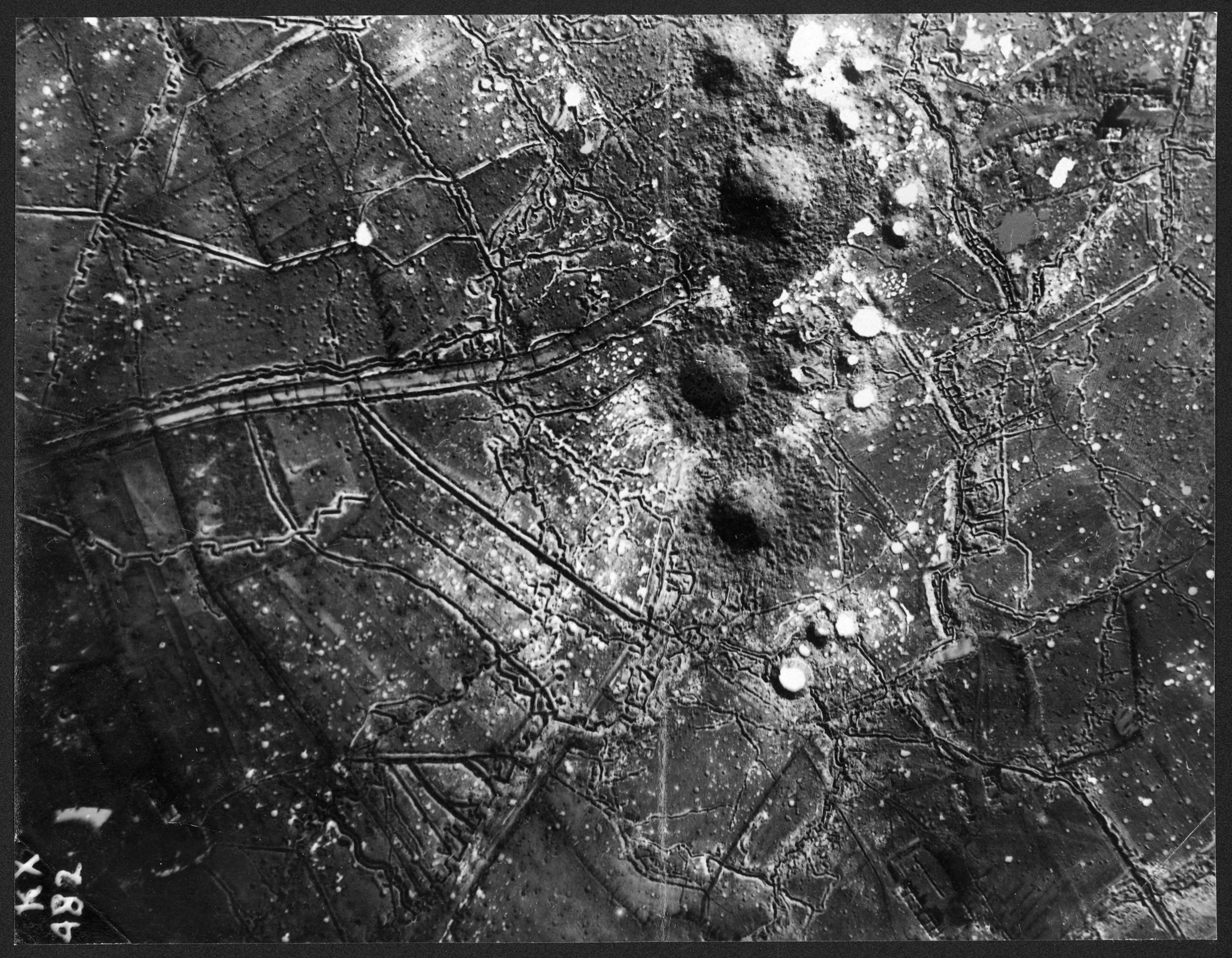 Aerial photograph, St Eloi, near Ypres, Belgium, 27 March 1916. This aerial photograph was taken on 27 March 1916 after the British had exploded six very large mines at the same time, to knock out the German defence before the Allies advanced. The new huge mine craters can be seen looking like four hills in a line up the centre of the photograph. Field Marshal (Earl) Haig (1861-1928) described the action, 'The operation was begun by the firing of six very large mines; the charge was so heavy that the explosion was felt in towns several miles behind the lines, and large numbers of the enemy were killed. Half a minute after the explosion our infantry attack was launched aiming at the German Second Line.' [Original reads: 'Photograph No KX.482 / Date taken 27 March 1916 / Sheet 28 / Area O / Chief features shown:- Mine craters at St. Eloi. / Taken at 6500 ft. / Time. 9.a.m. / big mines 60 ft. deep - 35 tons of ammonal were used for 6 mines (4 large ones shown below)' plus '2nd wing R.F.C.' On the back of the photograph is written 'SCALE 20000' & 'TAKEN BY NO 5 SQUAD.']